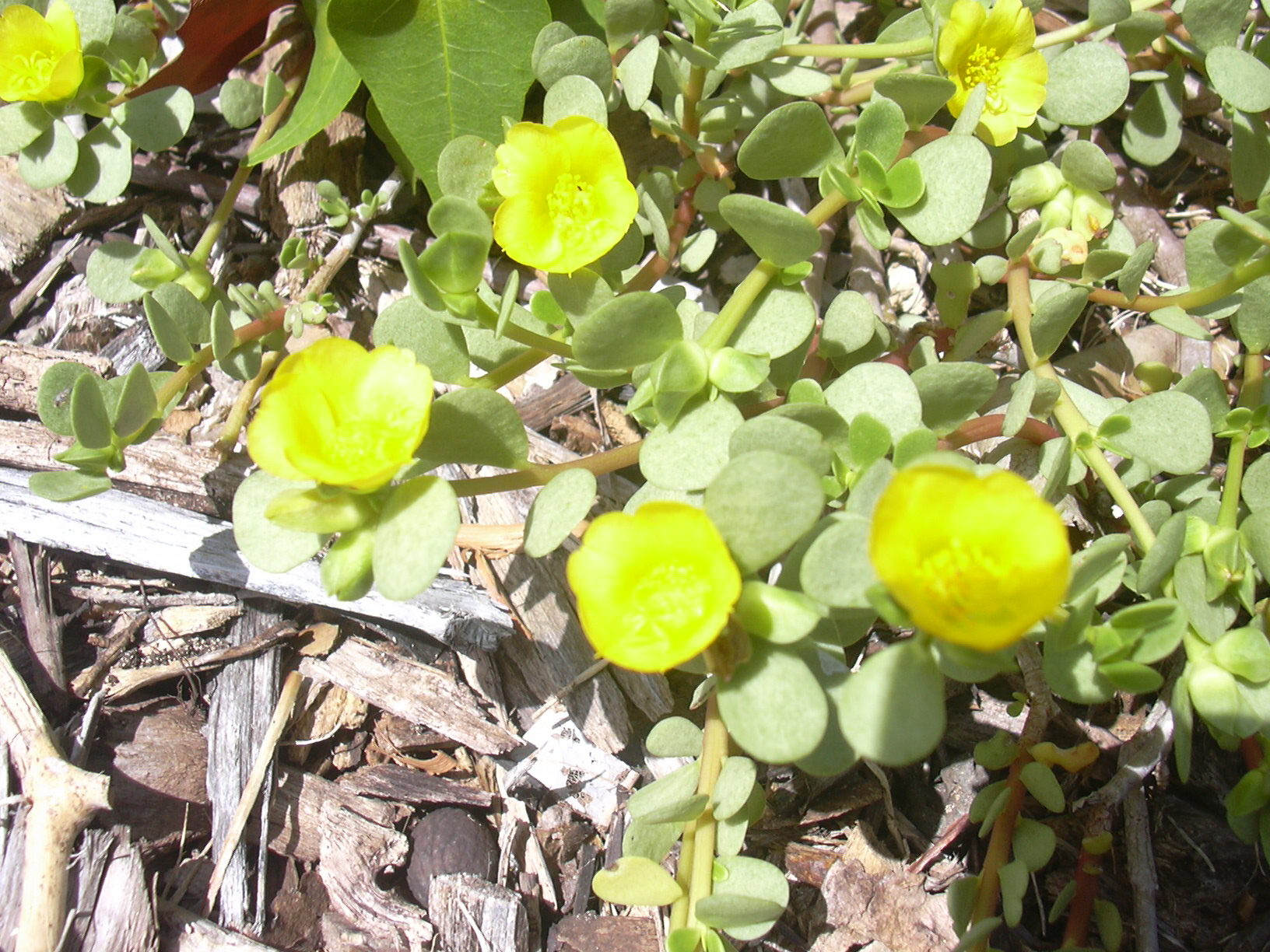 Portulaca lutea (flowers). Location: Maui, Maui Nui Botanical Garden